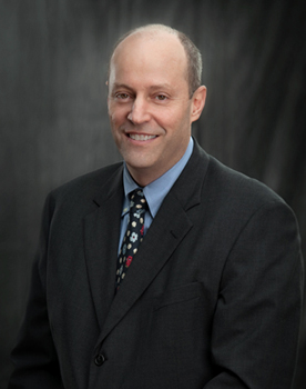 Jonathan Veitch portrait, Los Angeles, California